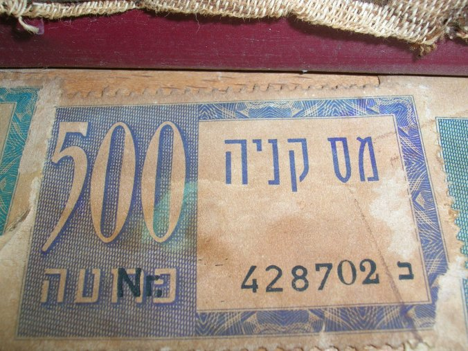 we knew granny's old chairs were ancient, but only recently discovered they also carry humble tokens of israeli history: we found this stamp (and several others like it) on the underside of each chair. the text reads "purchase tax", and "500 pruta". the israeli lira was issued from 1954 to 1980. it's 1000's part, the pruta, was cancelled in 1960 - placing the purchase of these chairs sometime in the mid- to late fifties. at the time, everything was rationed, so presumably the stamps showed that the purchase was legit.